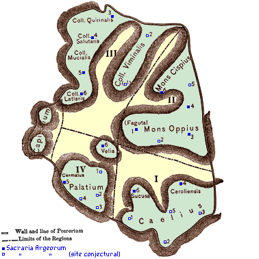 Adapted from the article Regiones Quattuor in Samuel Ball Platner: A Topographical Dictionary of Ancient Rome (London, Oxford University Press, 1929). In the public domain. The Seven Hills of Rome are shown in green, with Latin names.